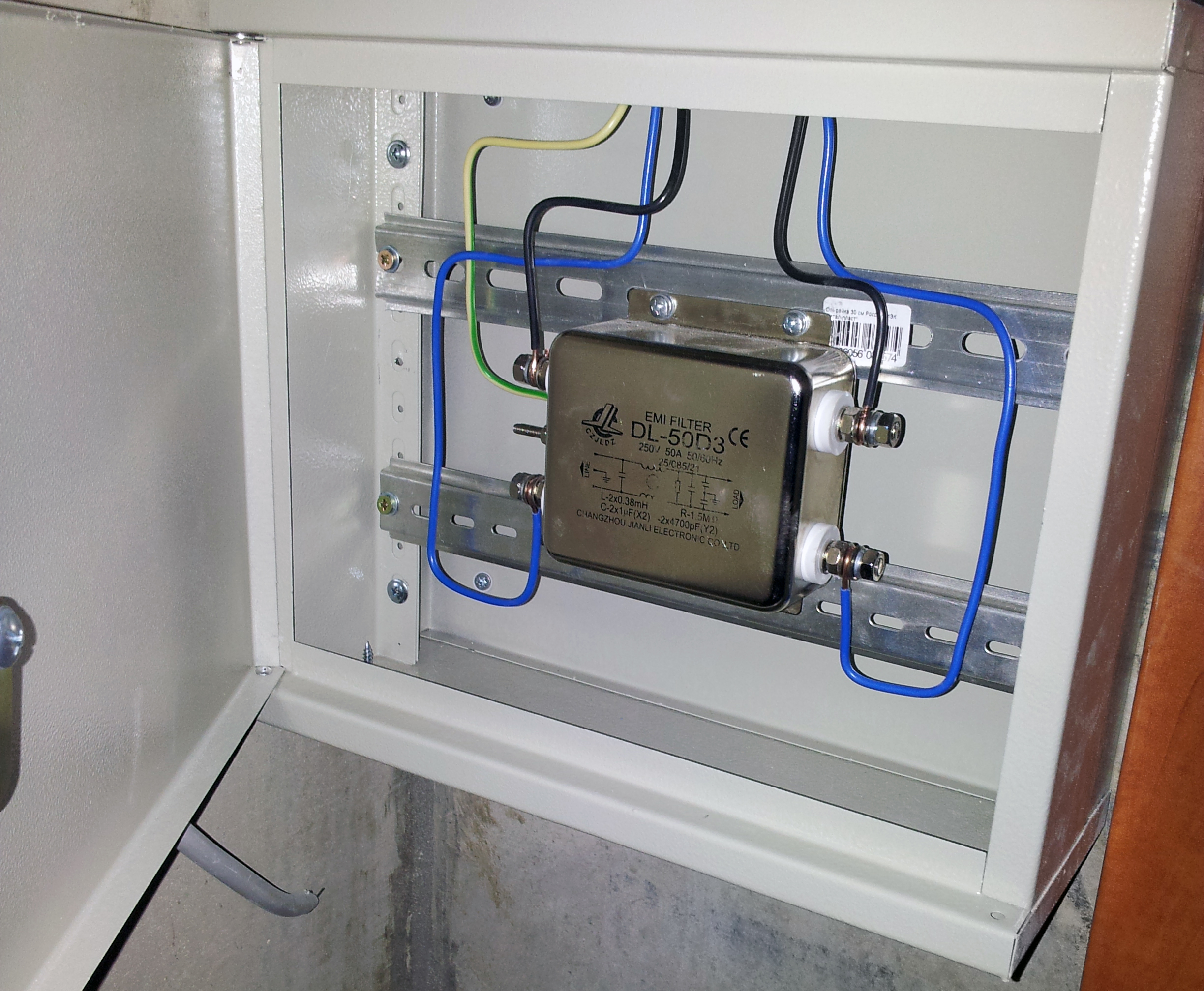 LC filter 250V 50A 50/60Hz